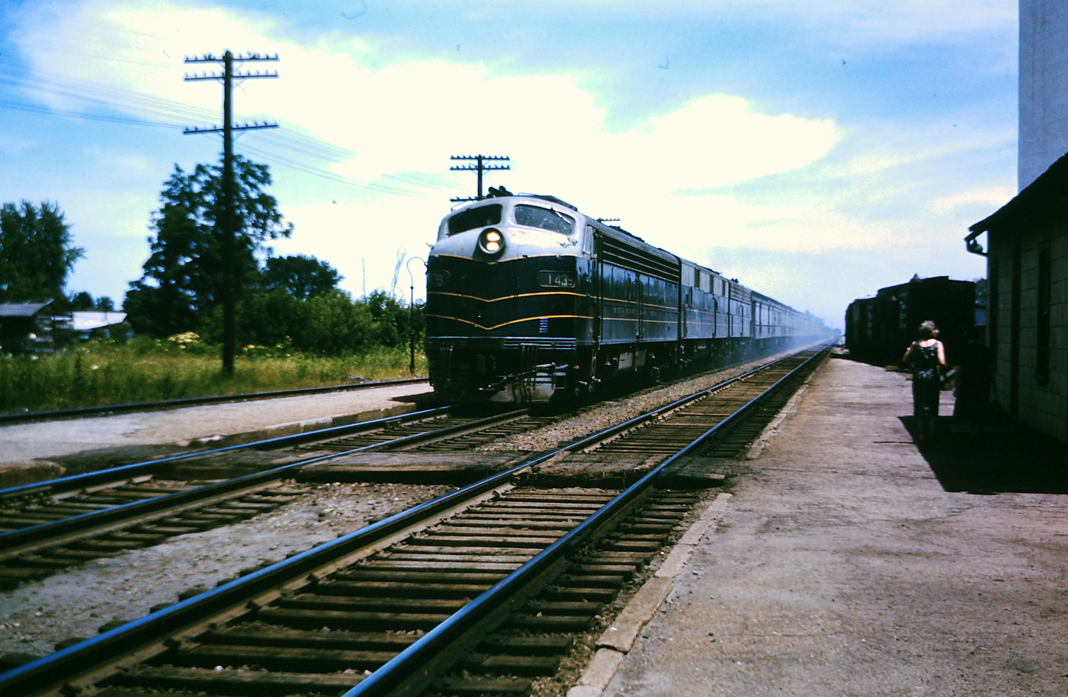 The Baltimore & Ohio's Washington–Chicago Express at La Paz, Indiana. The train is led by EMD E8 #1439.